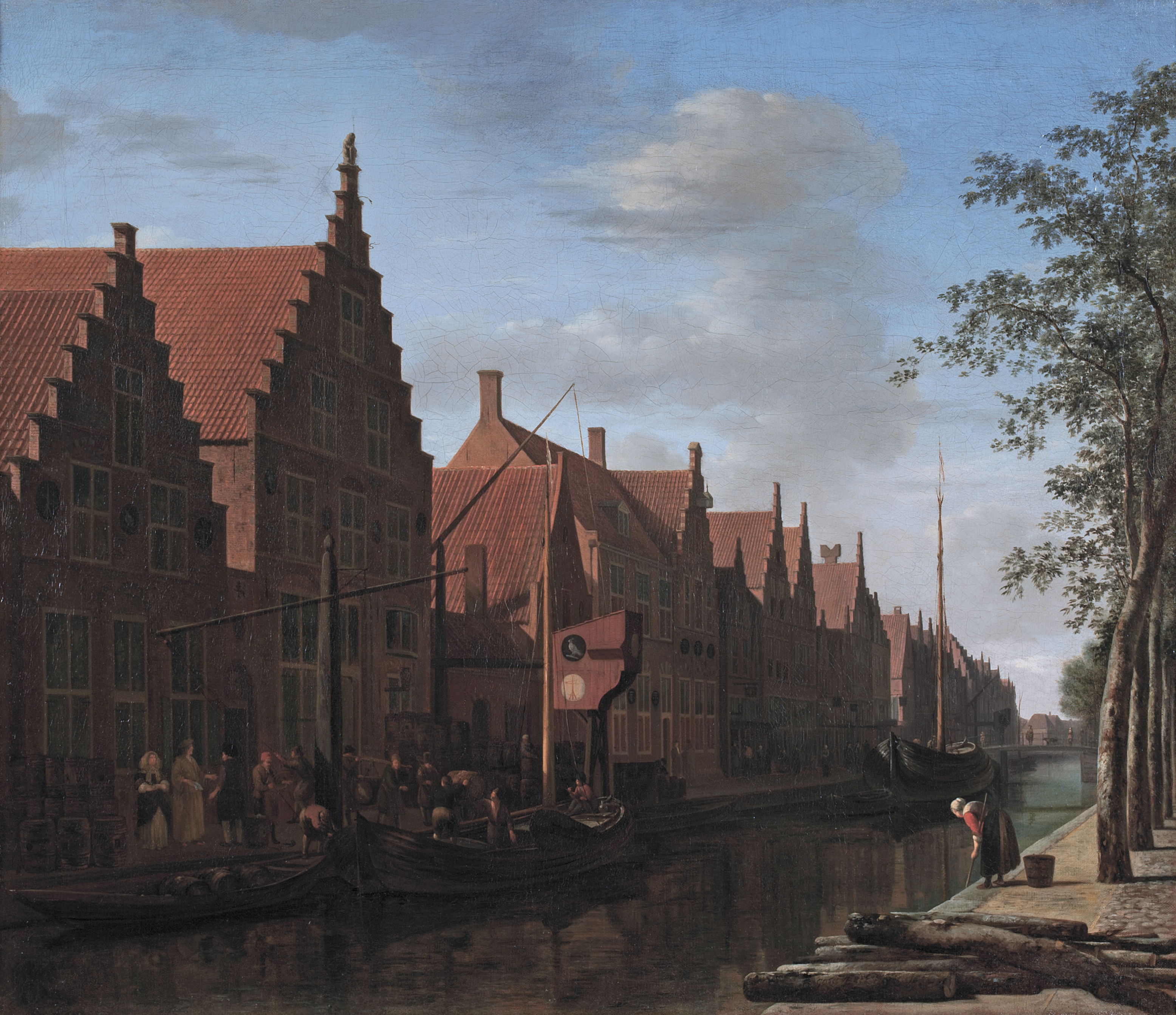 View of the Bakenessergracht, Haarlem, and brewery "De Passer en de Valk" oil on canvas 1662